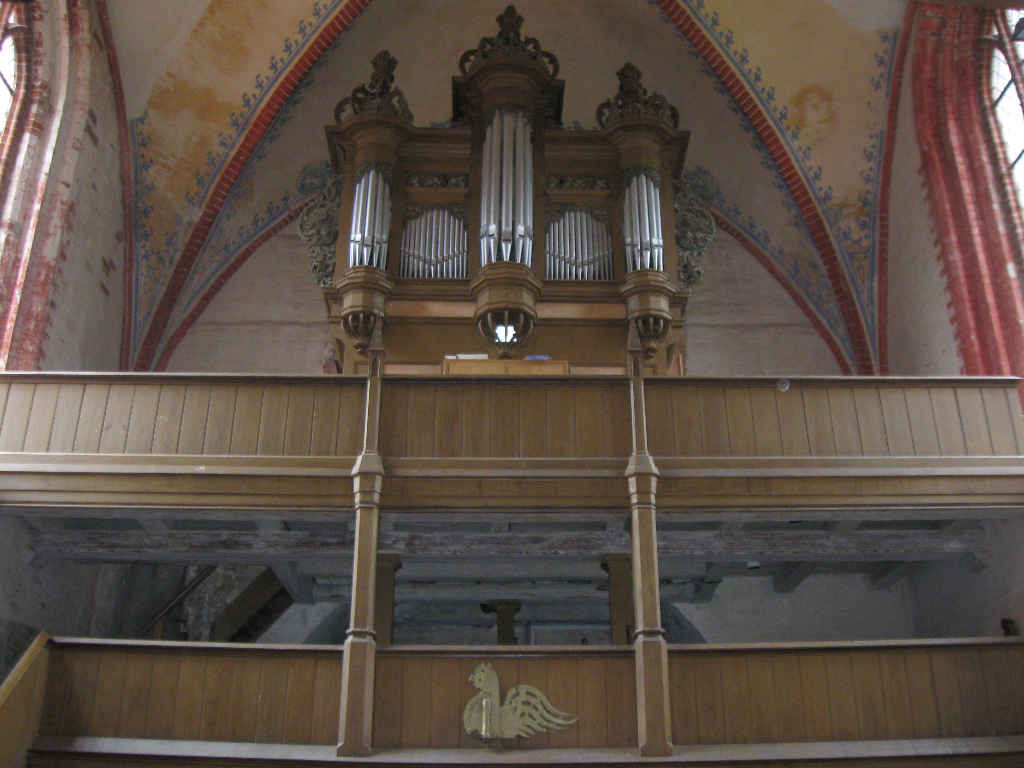 The Organ in the church of Kirchdorf Poel